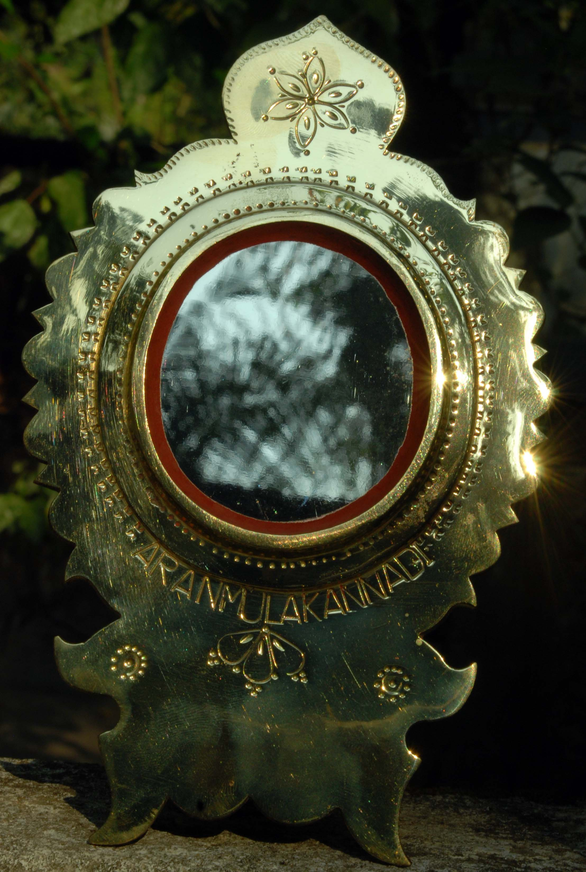 Aranmumla kannadi, (metal mirror) created from special metal alloys. This is manufactured in Aranmula near Chegannur in Kerala, India